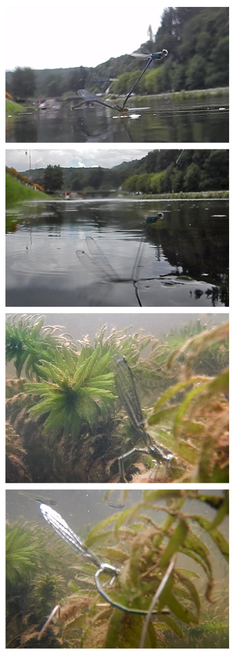 Zygoptera usually dip only put the tip of their abdomen (ovipositor) under the water surface to lay eggs. But Enallagma cyathigerum sometimes submerged (as here) completely. In Pont-Aven (Britain, France) in August 2016, there are at least two females laying eggs (more than 20 cm deep for one), staying several minutes under water. The environment is Lentic.